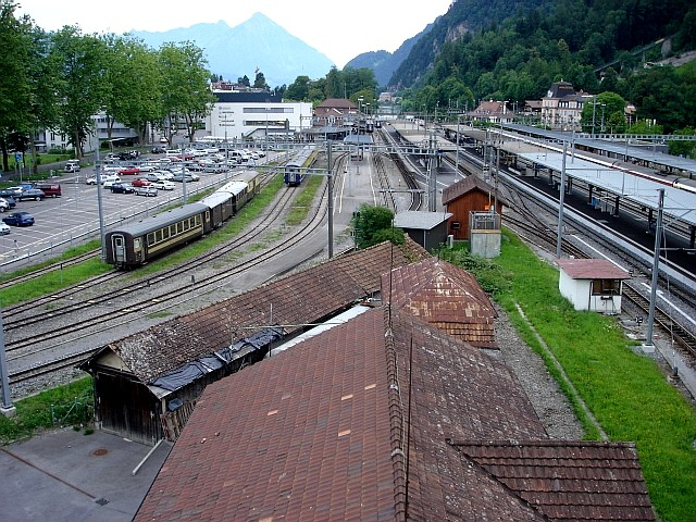 Interlaken